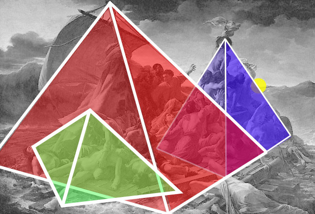 Le Radeau de la Méduse by Théodore Géricault, held at the Louvre in Paris